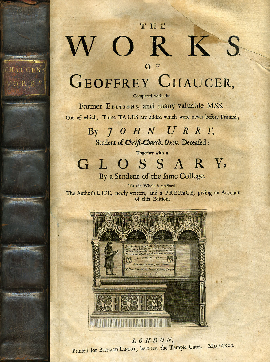 Spine and titlepage of a 1721 edition of "The Works of Geoffrey Chaucer" edited by John Urry. The engraving depicts Chaucer's tomb.